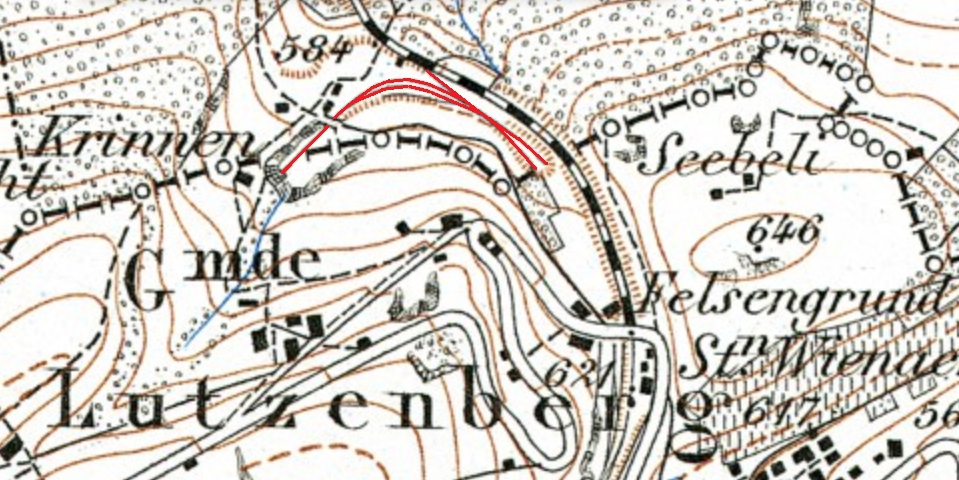 Bifurcation Chrennen at Wienacht, Rorschach Heiden Railway, Switzerland.